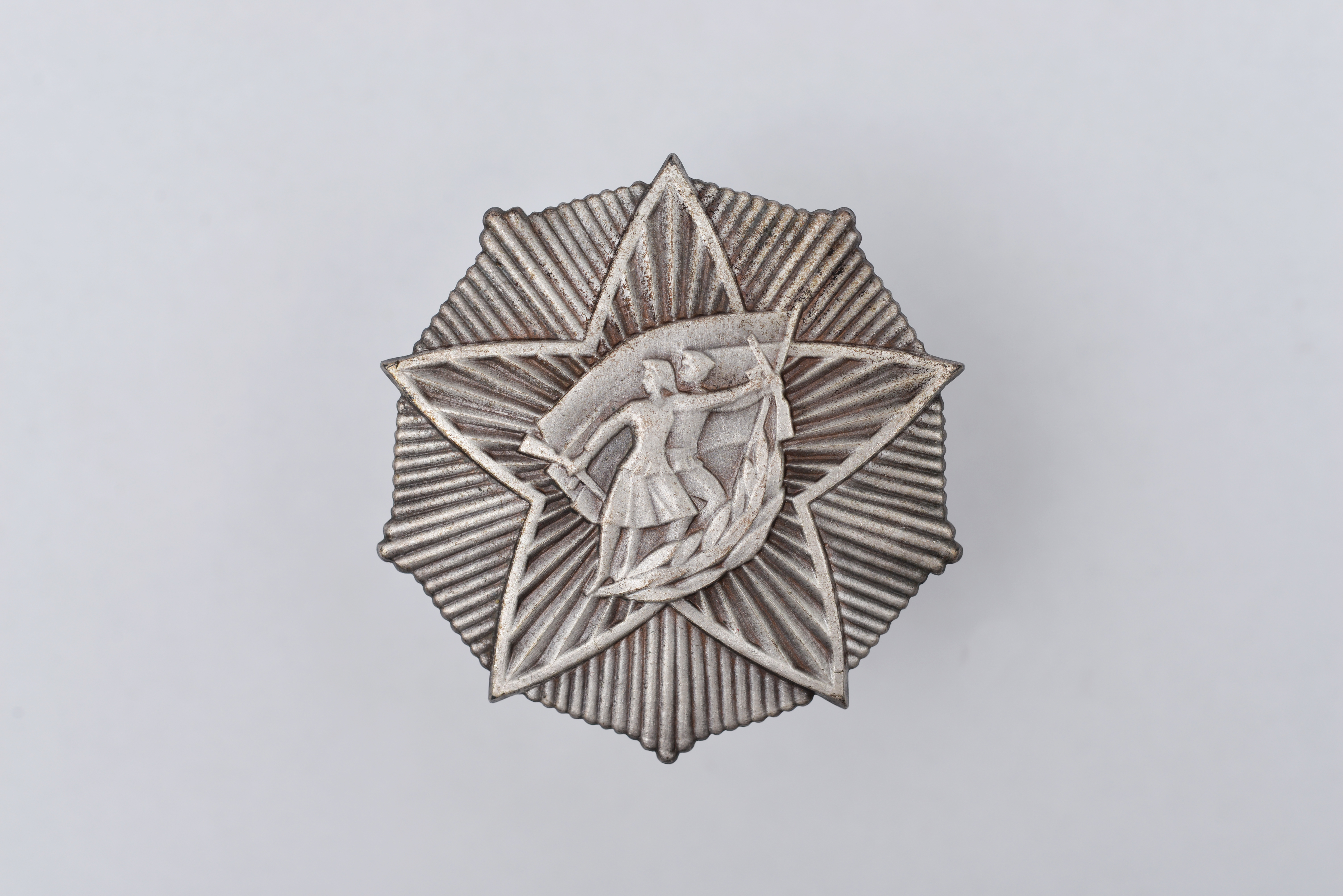 SUBNOR (Union of Associations of Fighters of the National Liberation War of Yugoslavia) plaque, Decorations collection, inventory number 75 Srpski (latinica): Plaketa SUBNOR-a (Saveza udruženja boraca Narodnooslobodilačkog rata Jugoslavije), Zbirka odlikovanja, inventarski broj 75